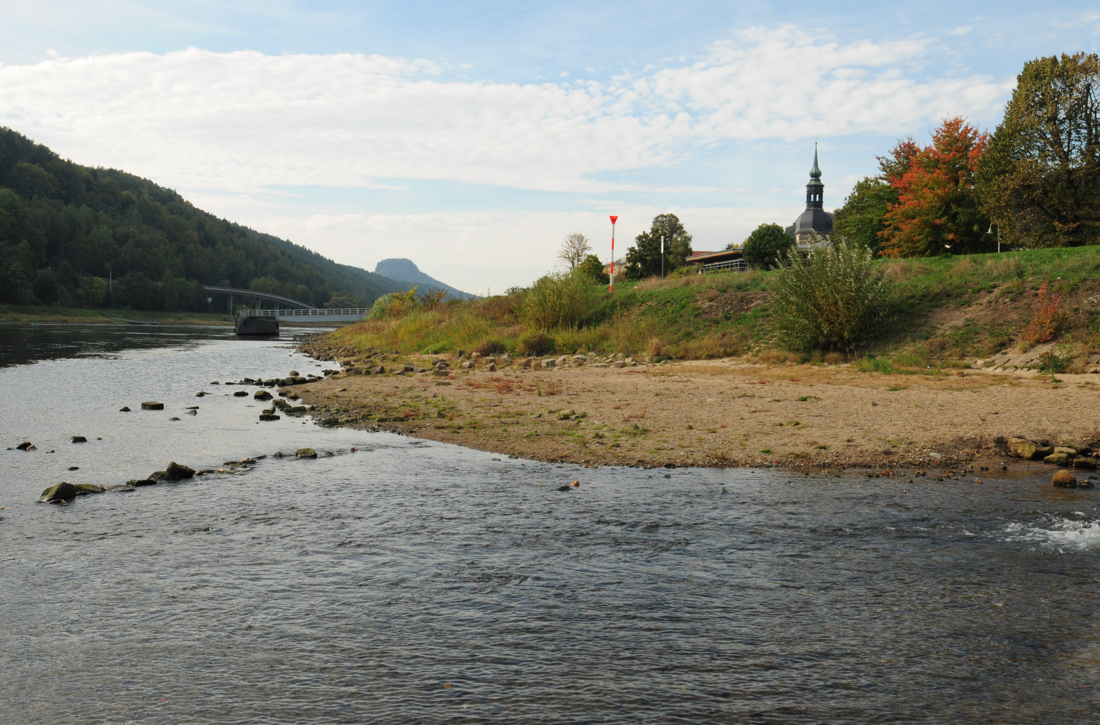 mouth of the Kirnitzsch as minor tributary into the Elbe, view downstream, town Bad Schandau (district Saxon Switzerland - East Ore Mountains, Free State of Saxony, Germany)